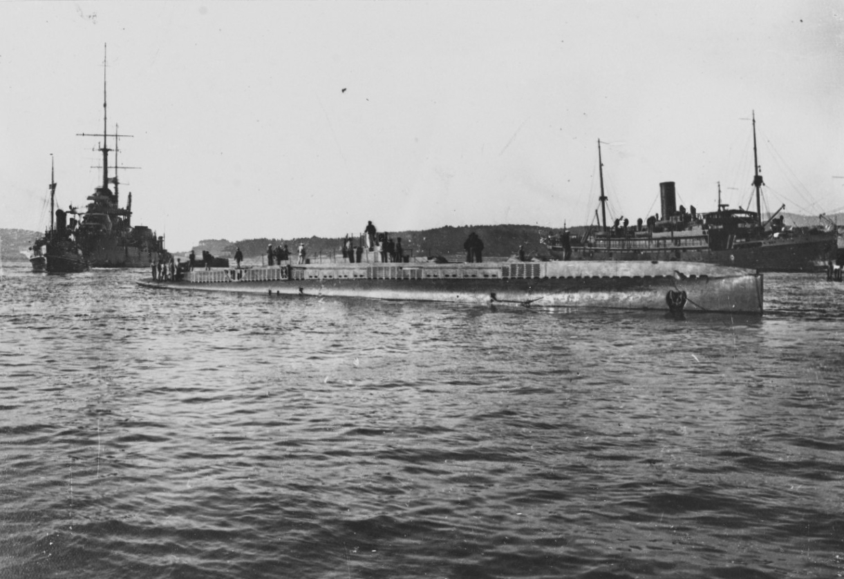 Unidentified member of the French Bellone class of submarines at Toulon, 1914–18